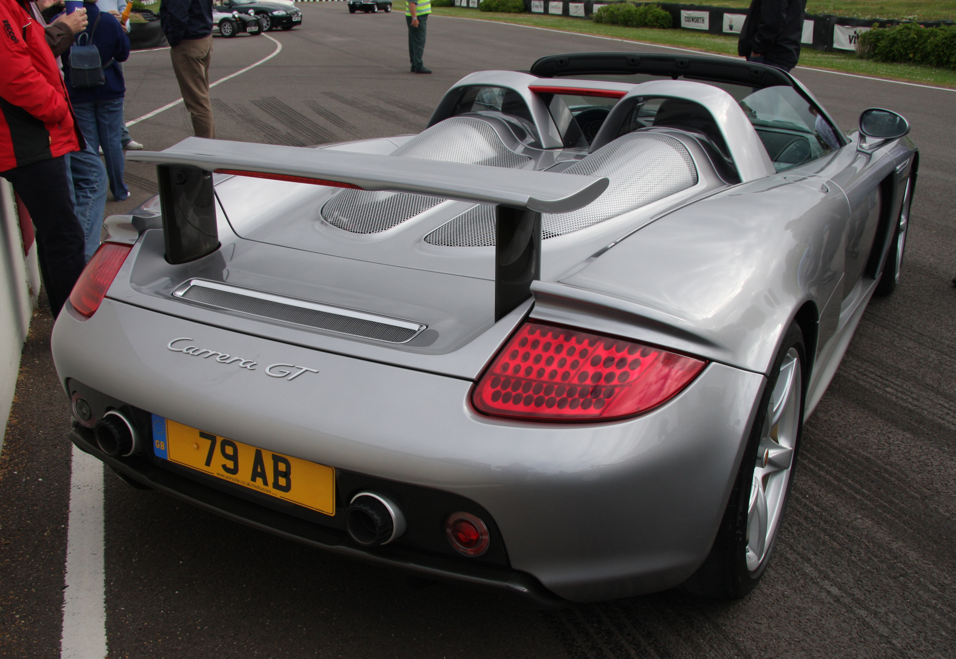 Porsche Carrera GT at the Goodwood Breakfast Club, July 2008.Porsche Carrera GT